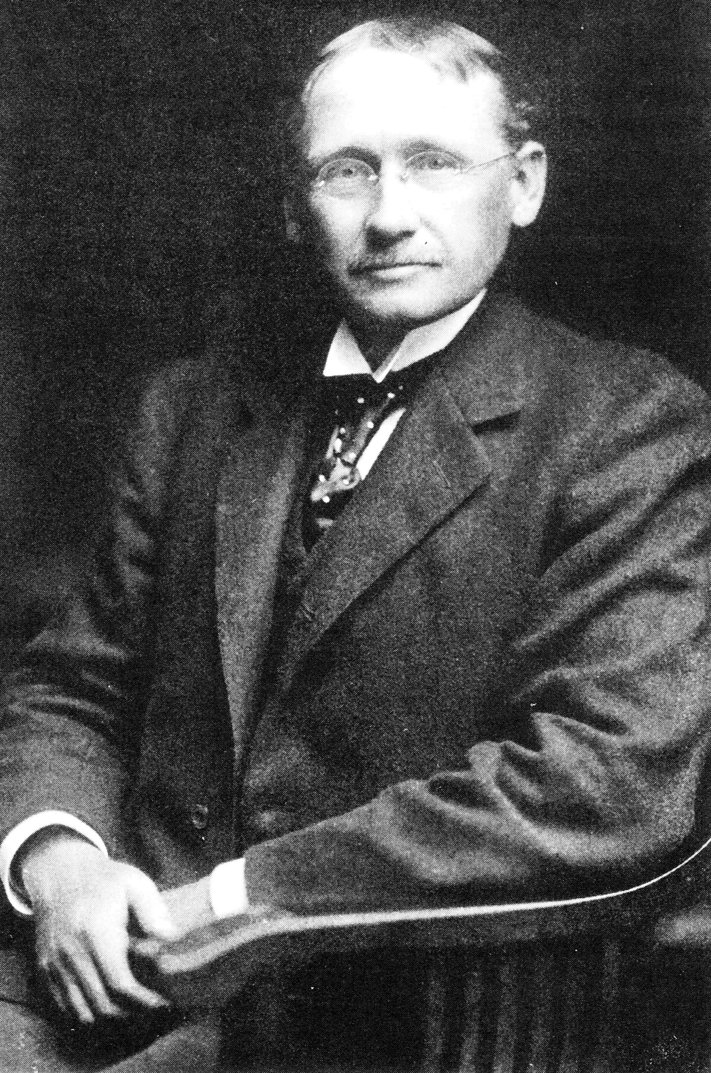 Frederick Winslow Taylor lived from 1856 to 1915